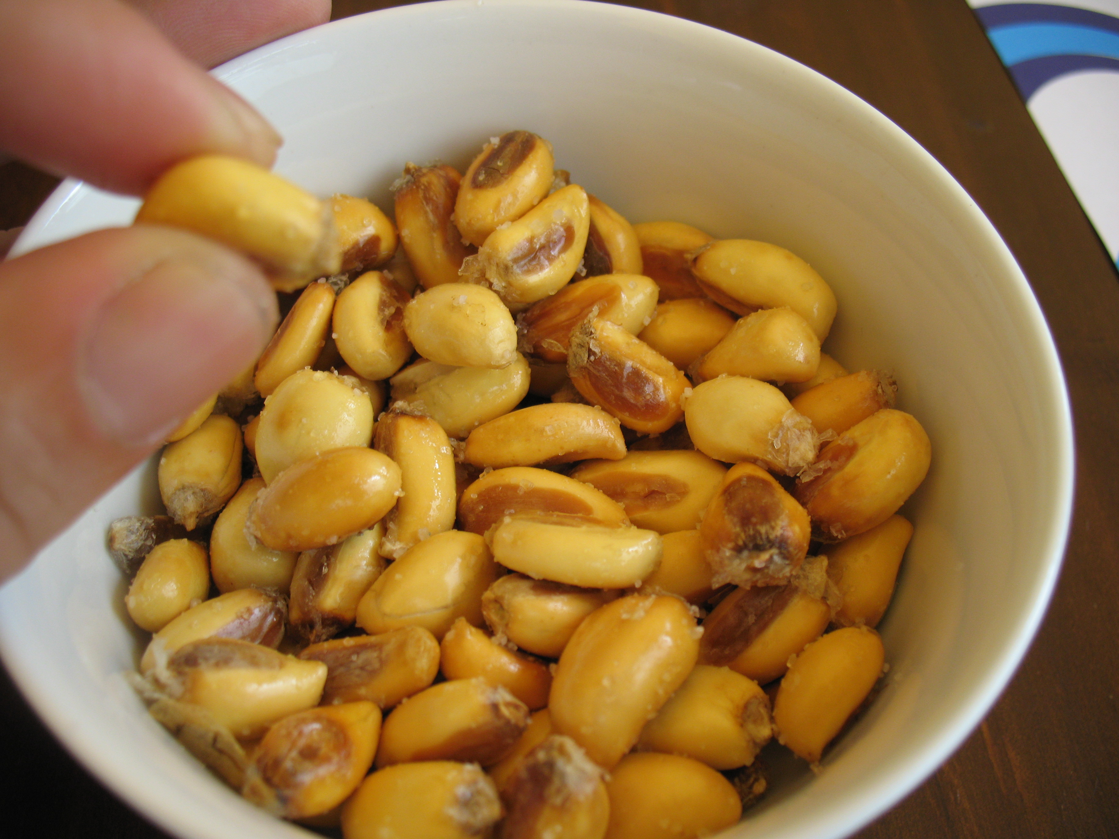 Known as cancha in Peru. This is a fried corn snack commonly served in Peru as an appetizer or just finger food. Very tasty and crunchy.